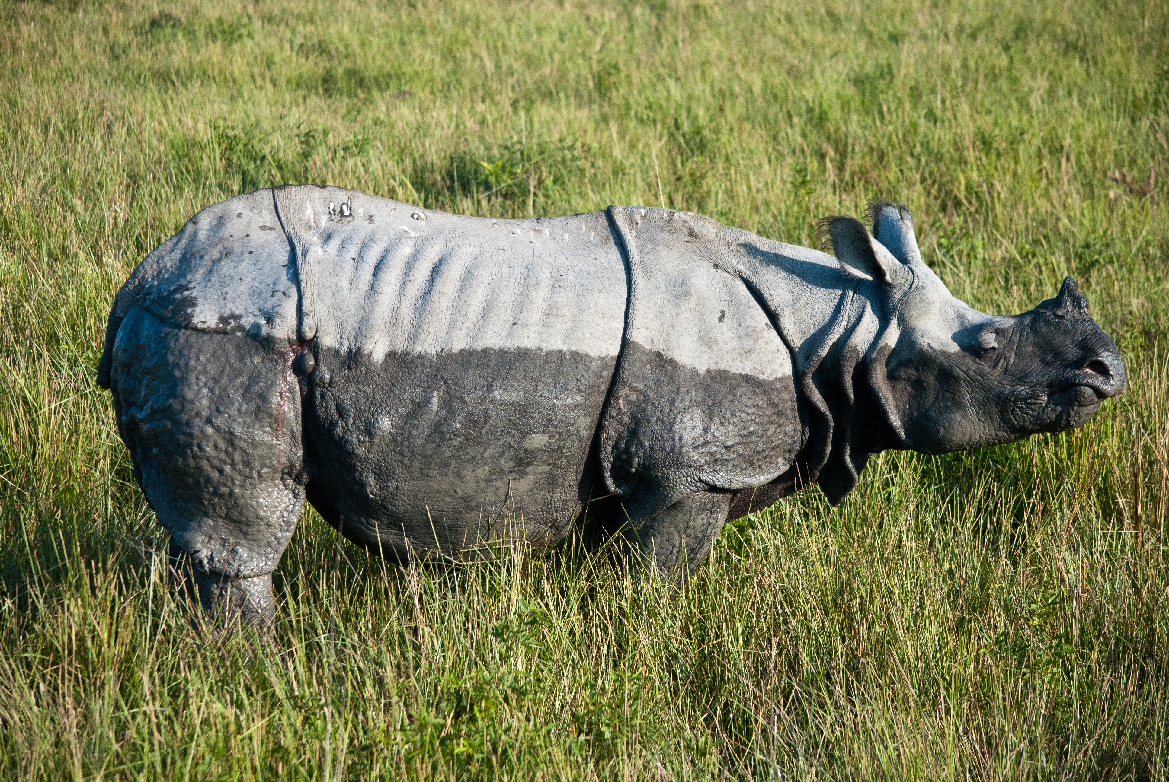 Rhino in the grassland of Kaziranga National Park, Assam, India.